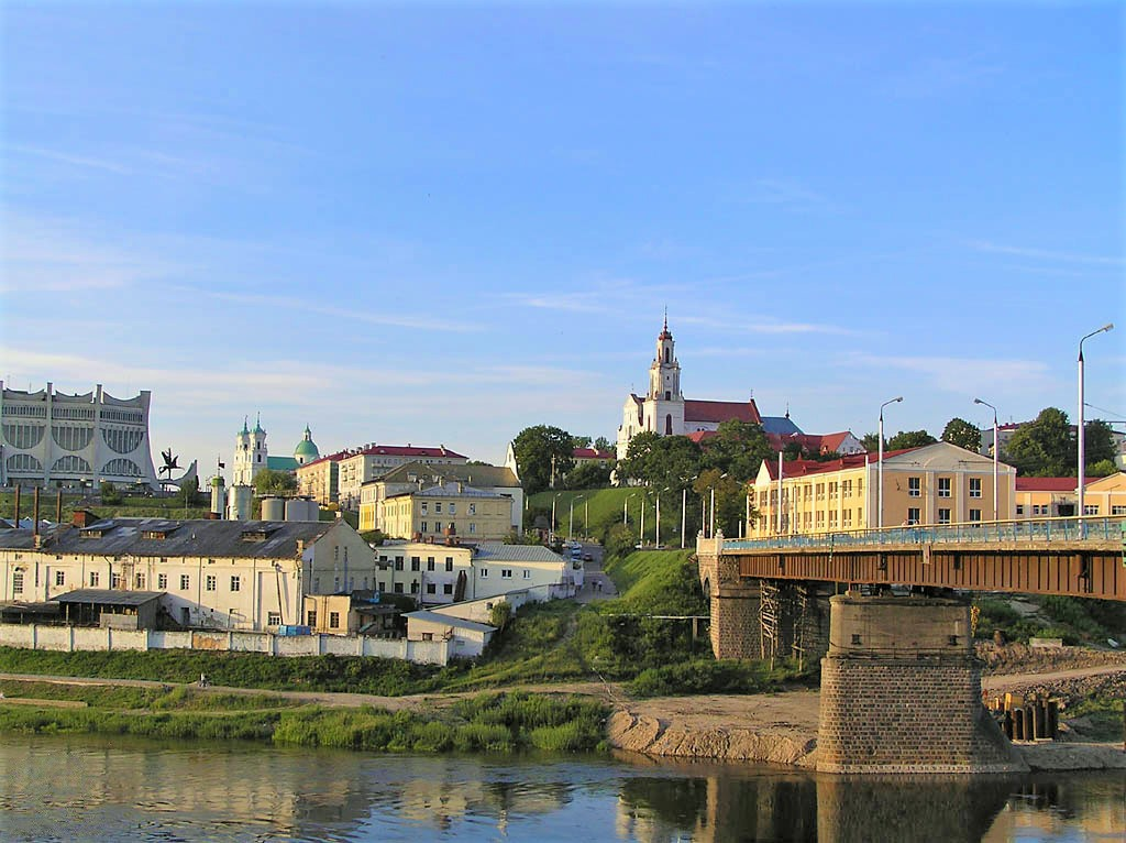 Hrodna, Belarus - right-bank part of the city